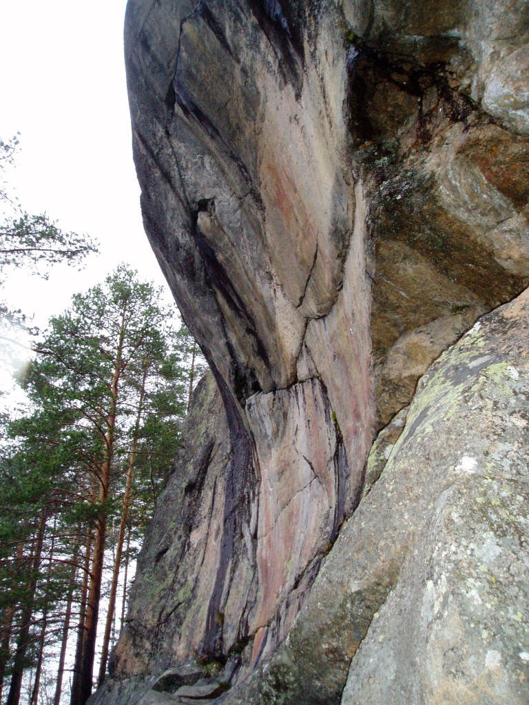 Astuvansalmi prehistoric rock paintings in Ristiina, Finland